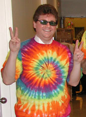 Jeff Q as a Dimension Description: Jeff Q-only cropped portion of a Reston Chorale ensemble about to perform The 5th Dimension's "Up, Up, and Away", Desert Concert, 3 March 2001. Source: Private file. Photo taken for Jeff Q using a Nikon Coolpix 950 digital camera. Date: 2001-03-03 Author: Jeffrey J. Quisenberry Permission: Released under licenses by Jeffrey J. Quisenberry (see "Licensing" below). Other versions of this file: - Other details: The fashion faux pas of wearing a white tux shirt under a tie-dyed shirt comes from having to do quick changes between numbers.